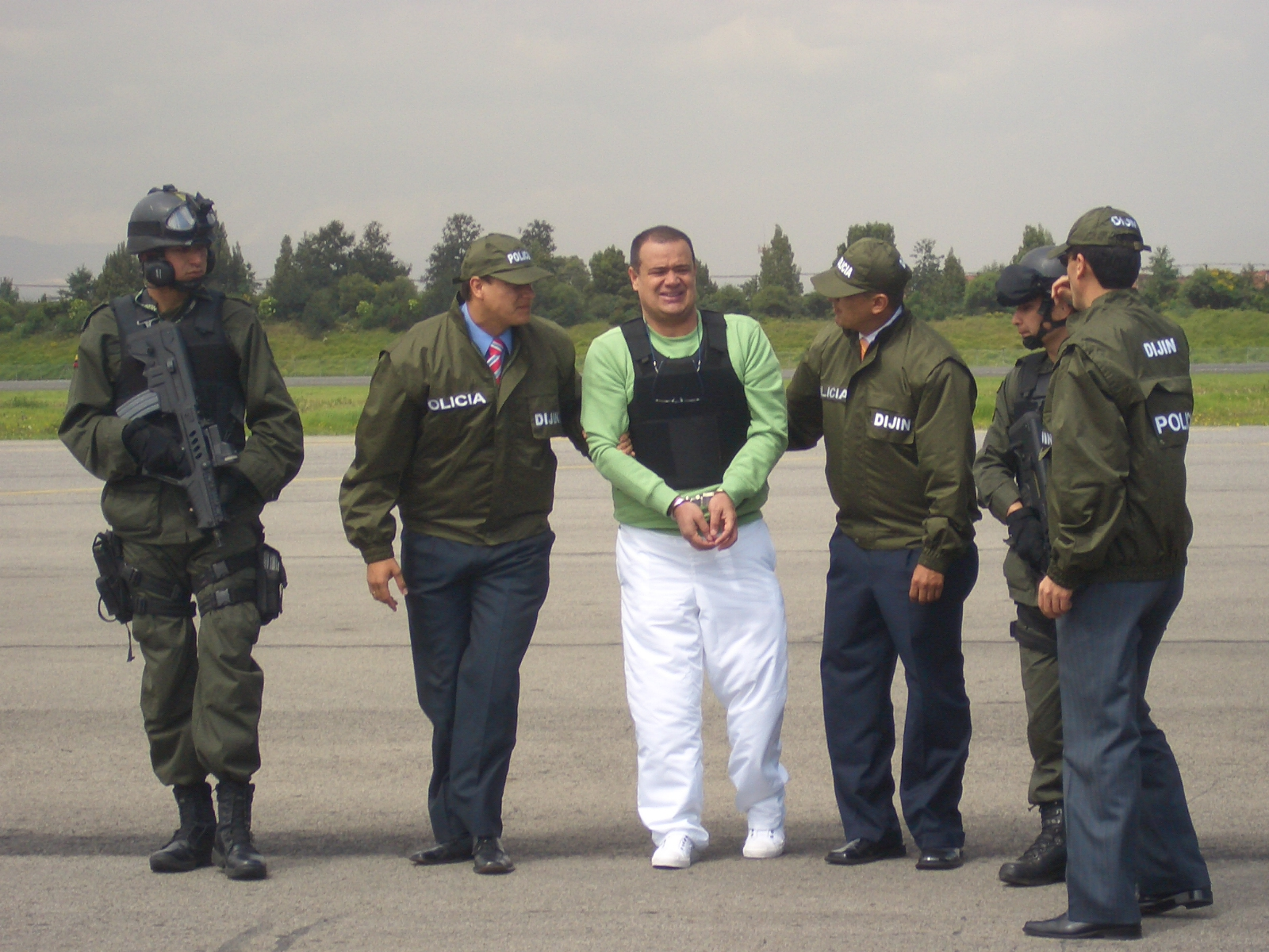 Arrest performed by the Colombian Police. "Luis Hernando Gomez-Bustamante, also known as "Rasguno", one of the leaders of the Norte Valle Colombian drug cartel, has been extradited from Colombia to the United States to face charges of running a continuing criminal enterprise and importing into the United States and distributing more than 150 kilograms of cocaine." — citation U.S. Immigration and Customs Enforcement News Release 2007-07-20 with that picture